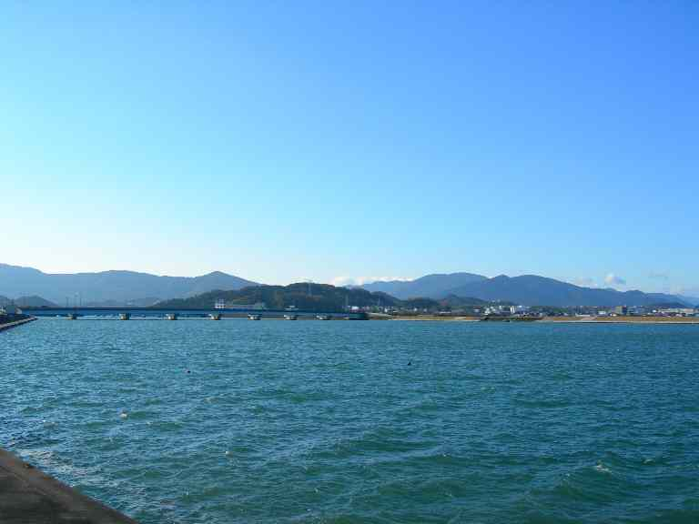 Isuzu-gawa is a rever which flows Ise city, Mie prefecture, Japan.